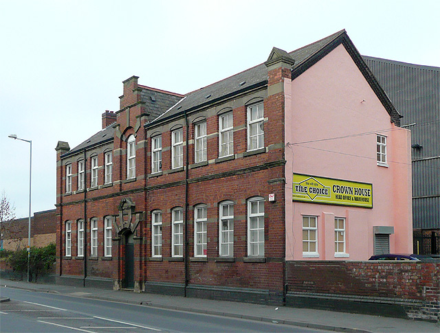 Crown House, Millfields Road, Ettingshall This is now the headquarters and fronts the main warehouse of a tile retailer. There are many modern industrial units of various sizes in the area, replacing the former iron industry buildings. Some of the older brick buildings remain as warehouses, or as offices for newer trades.